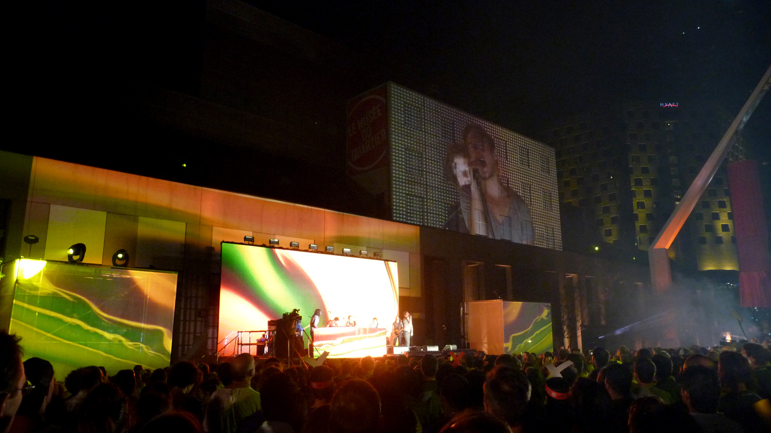 Inauguration of 'Place des festivals' with DJ Champion in Quartier des spectacles in Montreal on September 7 2009.